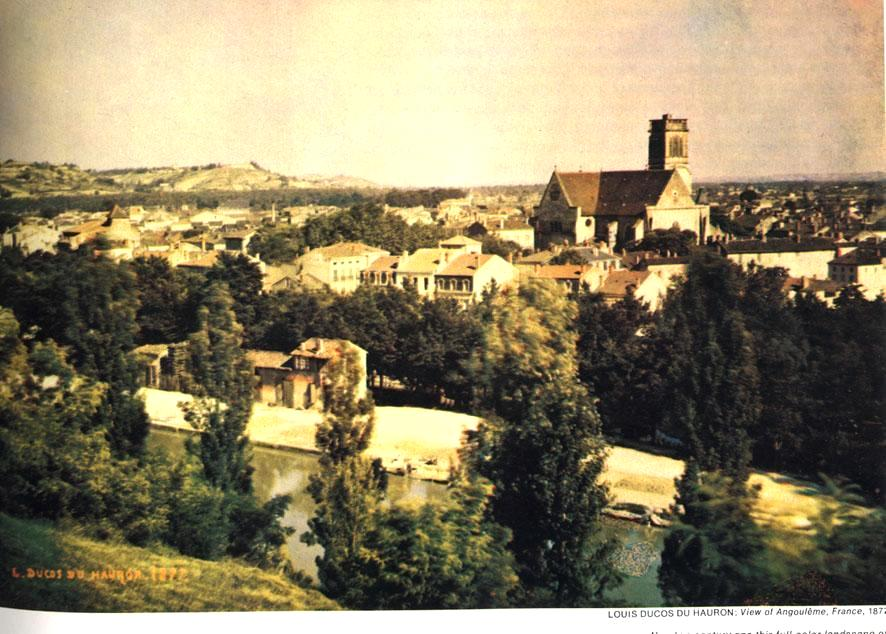 1877 color photograph of Angouleme, France. NOTE:Original upload and scanned page misidentify this is Angoulême - it is Agen (see File talk:Duhauron1877.jpg)